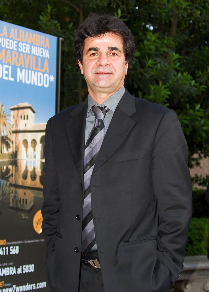 Jafar Panahi, iranian filmmaker and member of the jury of the first edition of Cines del Sur (2007)